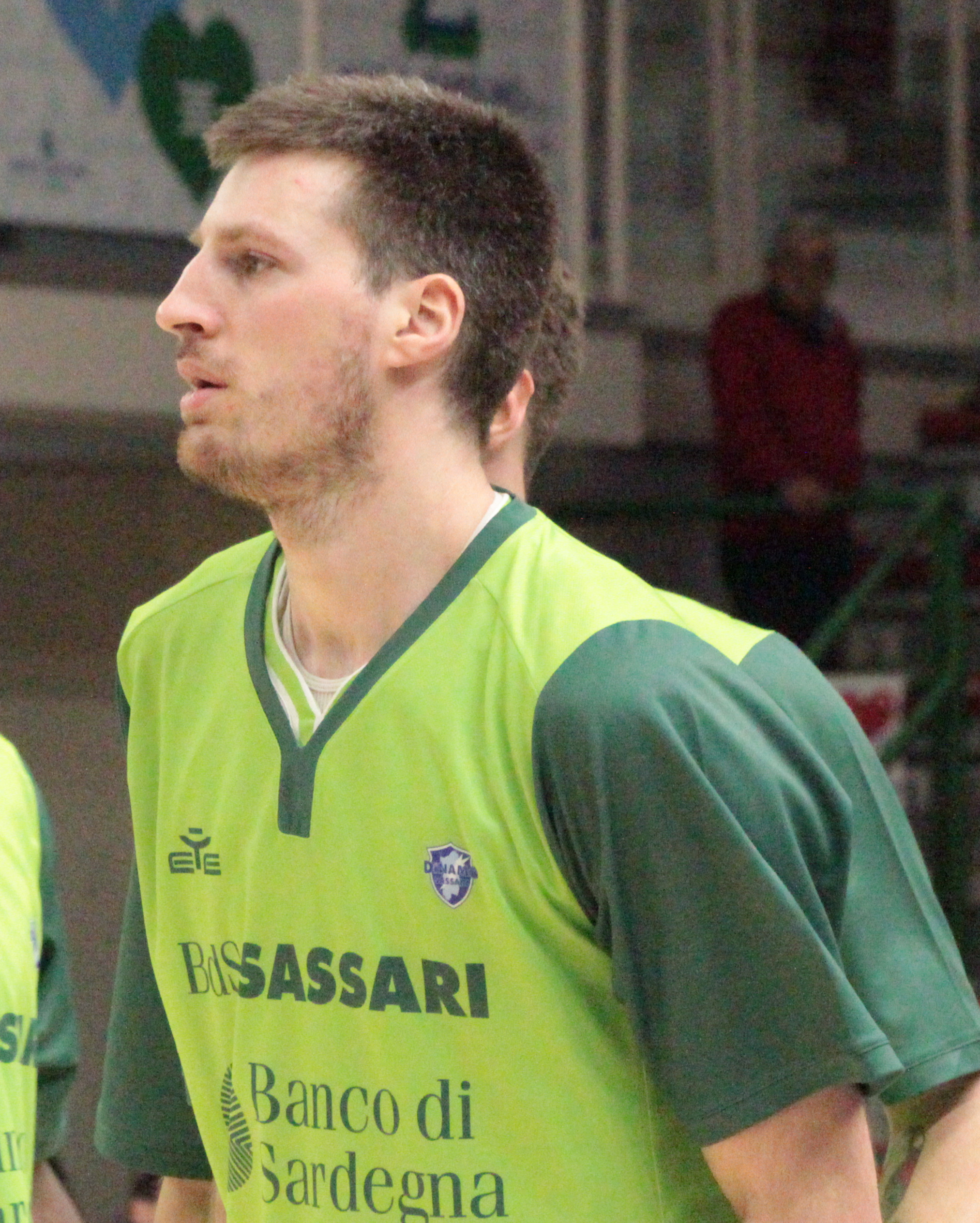 Basketball player Daniele Magro (right) in the final of the FIBA Europe Cup 2018-2019